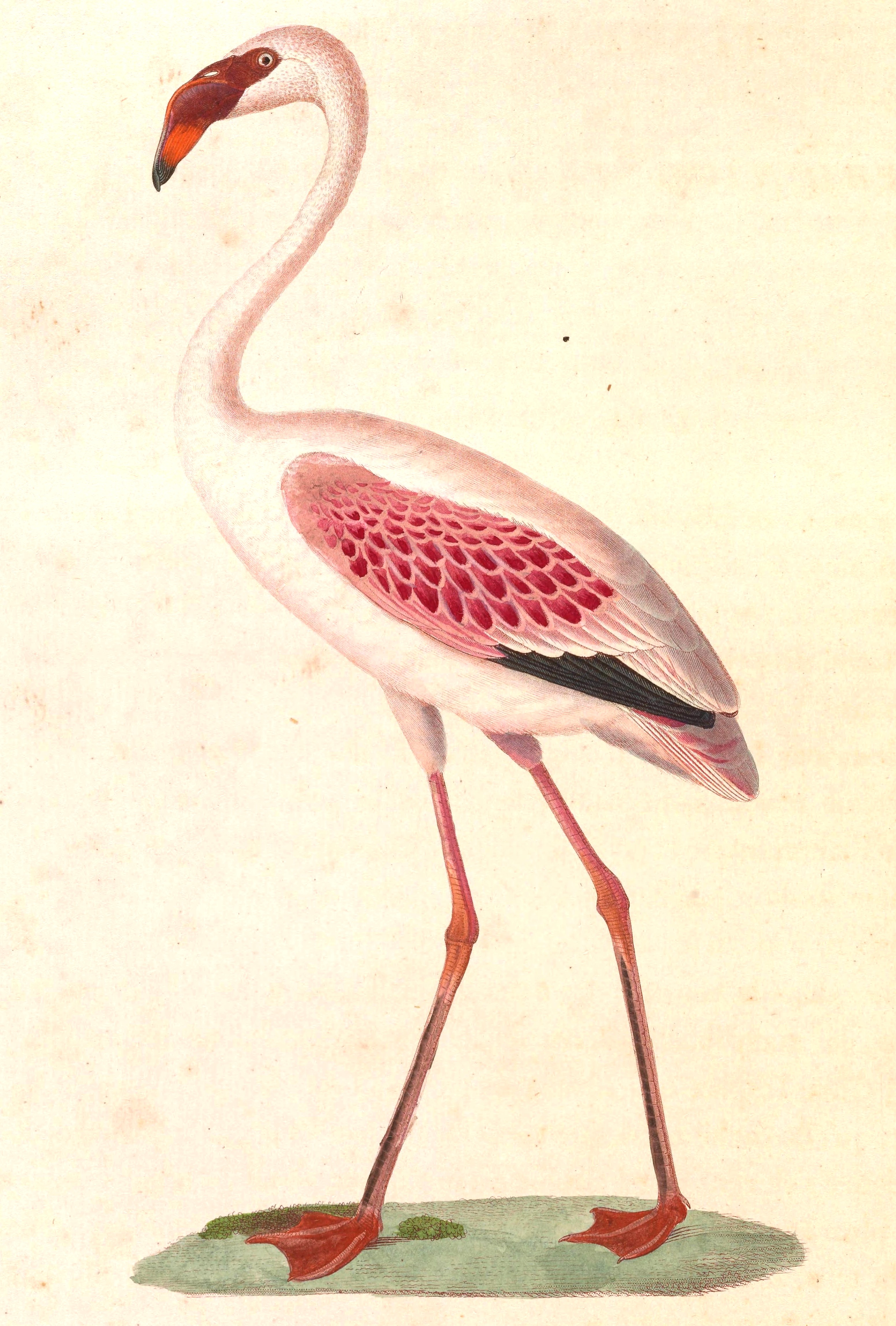 « Phoenicopterus minor » = Phoeniconaias minor (Lesser Flamingo) - adult